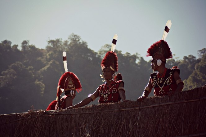 naga tribes in front of the morung at the Hornbill Festival of Nagaland